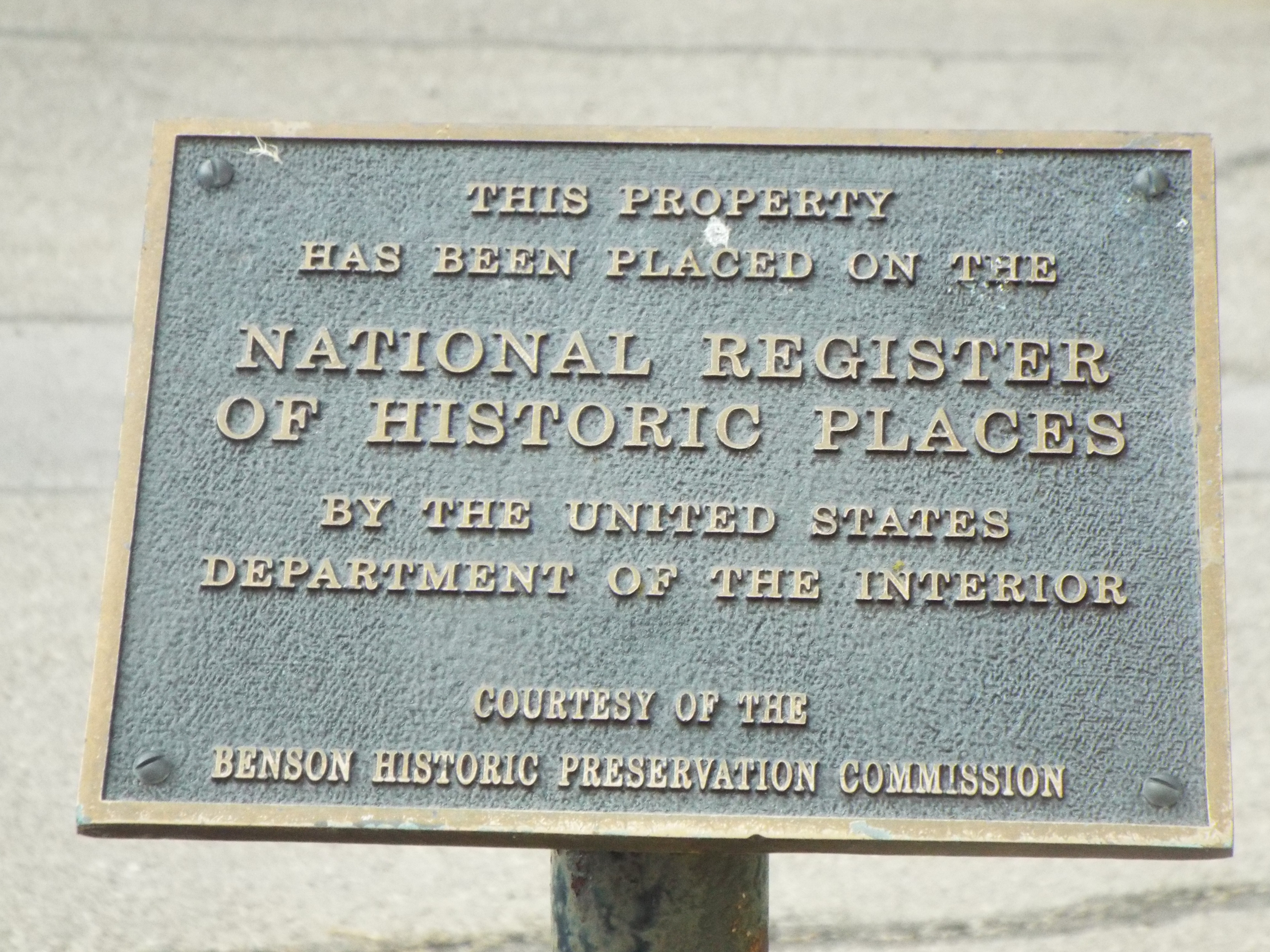 The historic Oasis Court merker in Benson, AZ